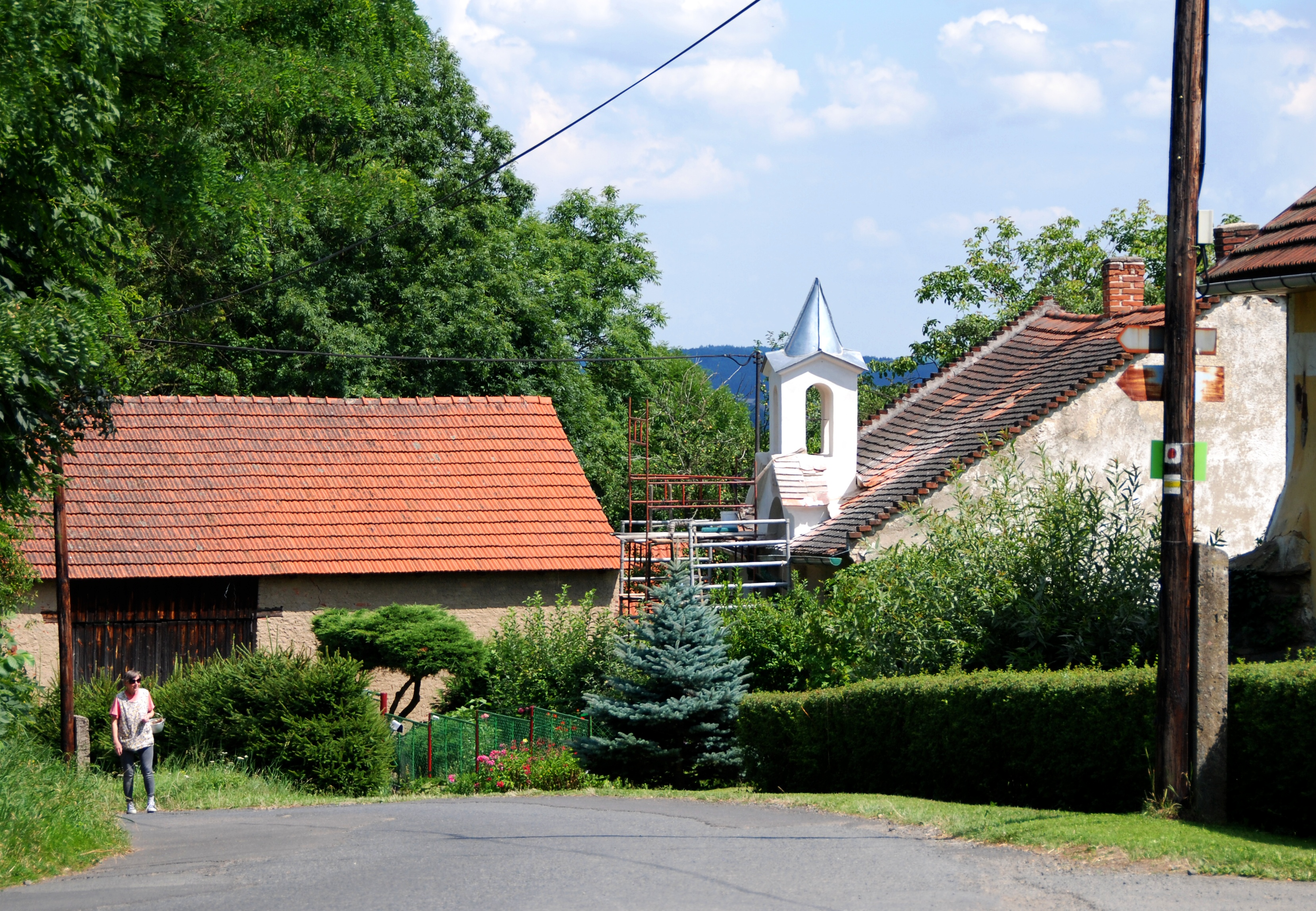 This photograph was taken within the scope of the second year of the 'Czech Municipalities Photographs' grant.